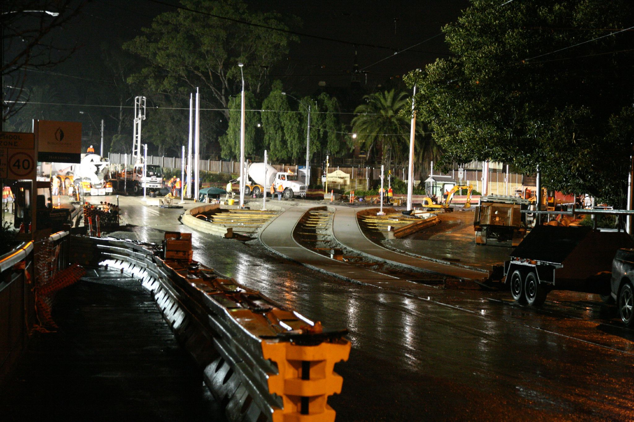 at the end of bridge road, the junction of Bridge rd, Church st and Burwood rd - Melbourne, Victoria, Australia.new tram stop on the way